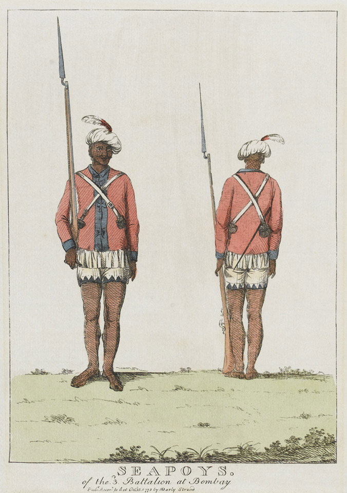 Sepoys of the 3rd Battalion at Bombay, Coloured engraving, published by Matthew Darly, 2 October 1773. The sepoys are dressed in jackets very similar to that worn by British troops, together with a turban and cholnas. The 3rd Battalion of Bombay Sepoys was raised in 1769, and ceased to exist in 1788 when its men were drafted to the 10th and 11th Battalions, which were in turn disbanded in 1785 and 1784 respectively. A new 3rd Battalion of Bombay Sepoys was raised in 1788, the ancestor of the Mahratta Light Infantry of the post-independence Indian Army. National Army Museum Collection, London: NAM Accession Number 1966-04-7-1